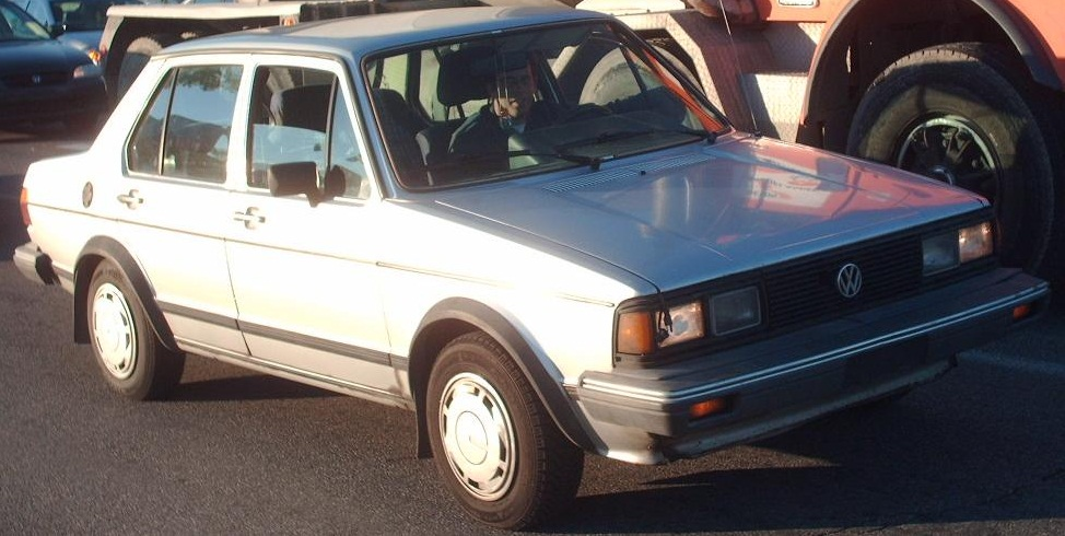 1983-1984 Volkswagen Jetta photographed in Montreal, Quebec, Canada.